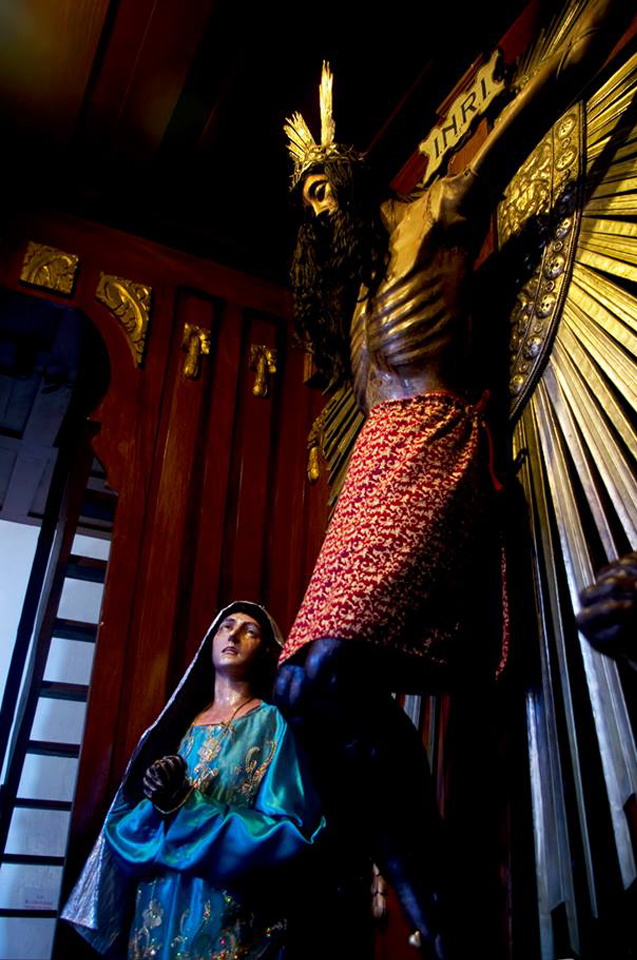 Sariaya's revered icon,the Santo Cristo de Burgos ("Ang Mahal Na Señor"), the "miraculous" 18th century replica of the original crucifix of Burgos, Spain